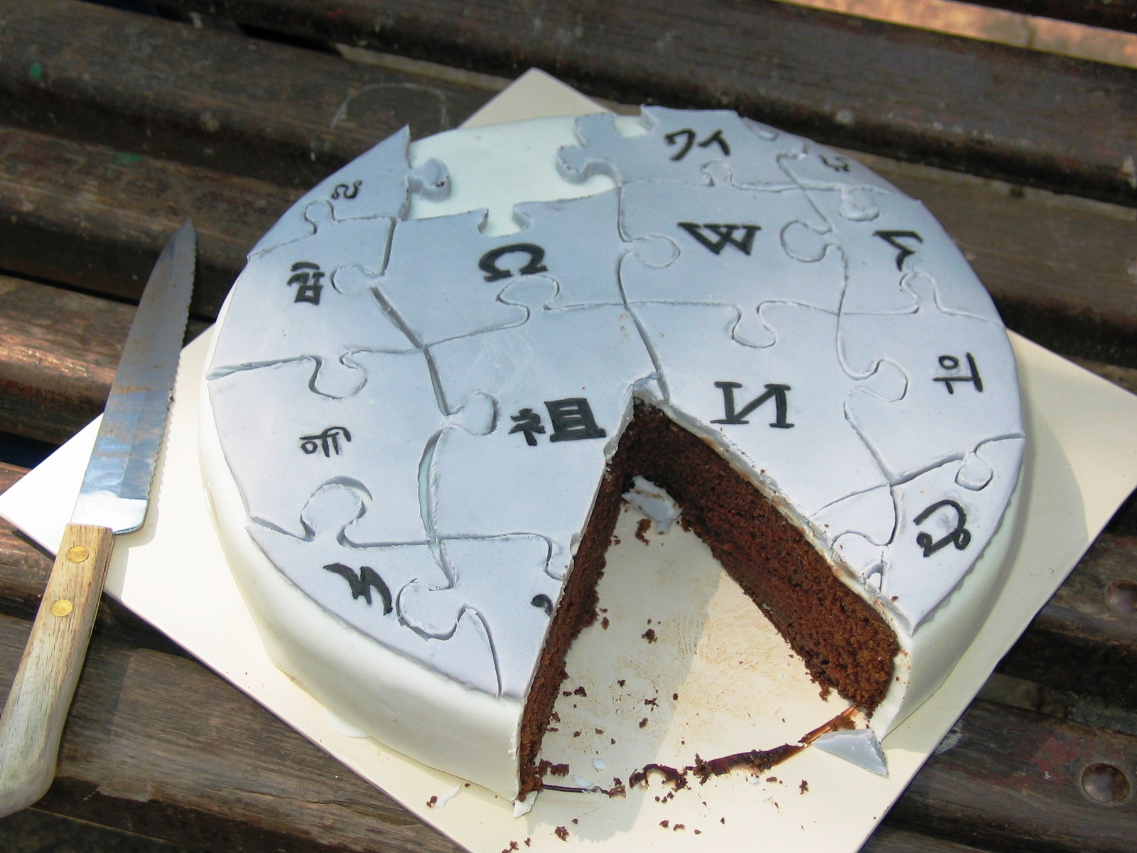 Hebrew Wikipedia picnic. The cake was made by Orion. Tel-Aviv, March 2007.